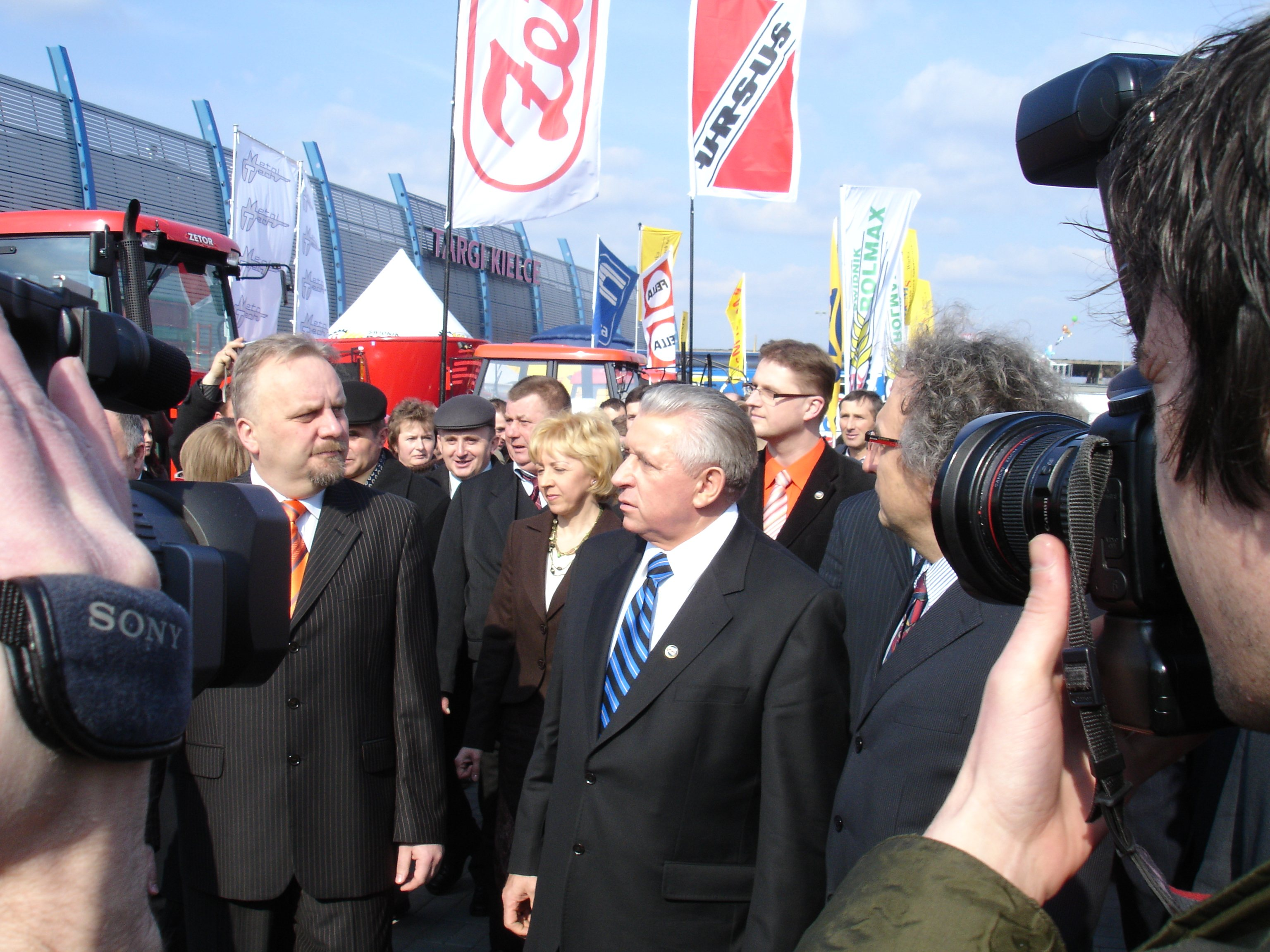 Andrzej Zbigniew Lepper, Deputy Prime Minister of Poland and Minister of Agriculture